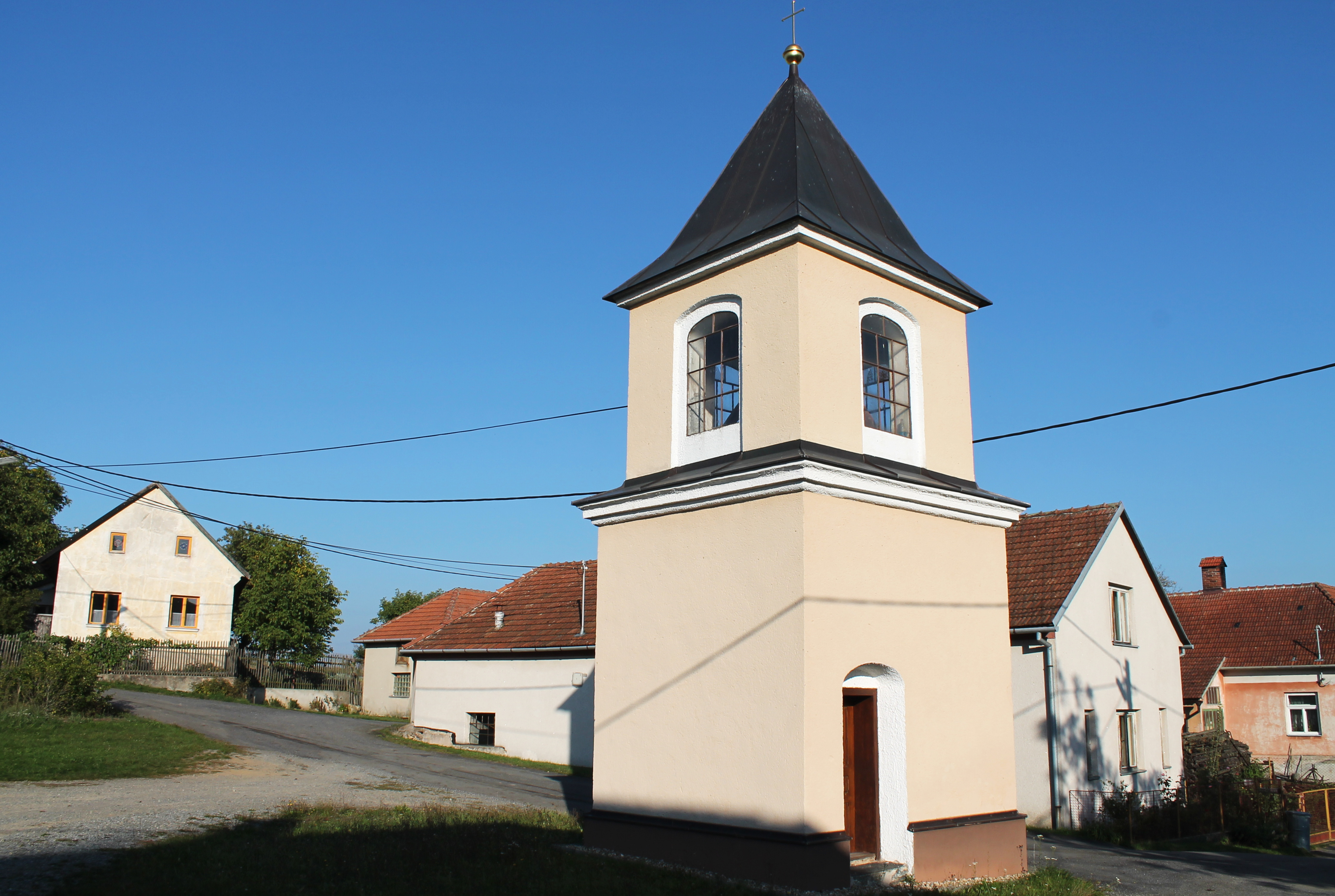 Chapel of Our Lady of Lourdes, Víckov, Žďárec, Brno-Country District, Czech Republic